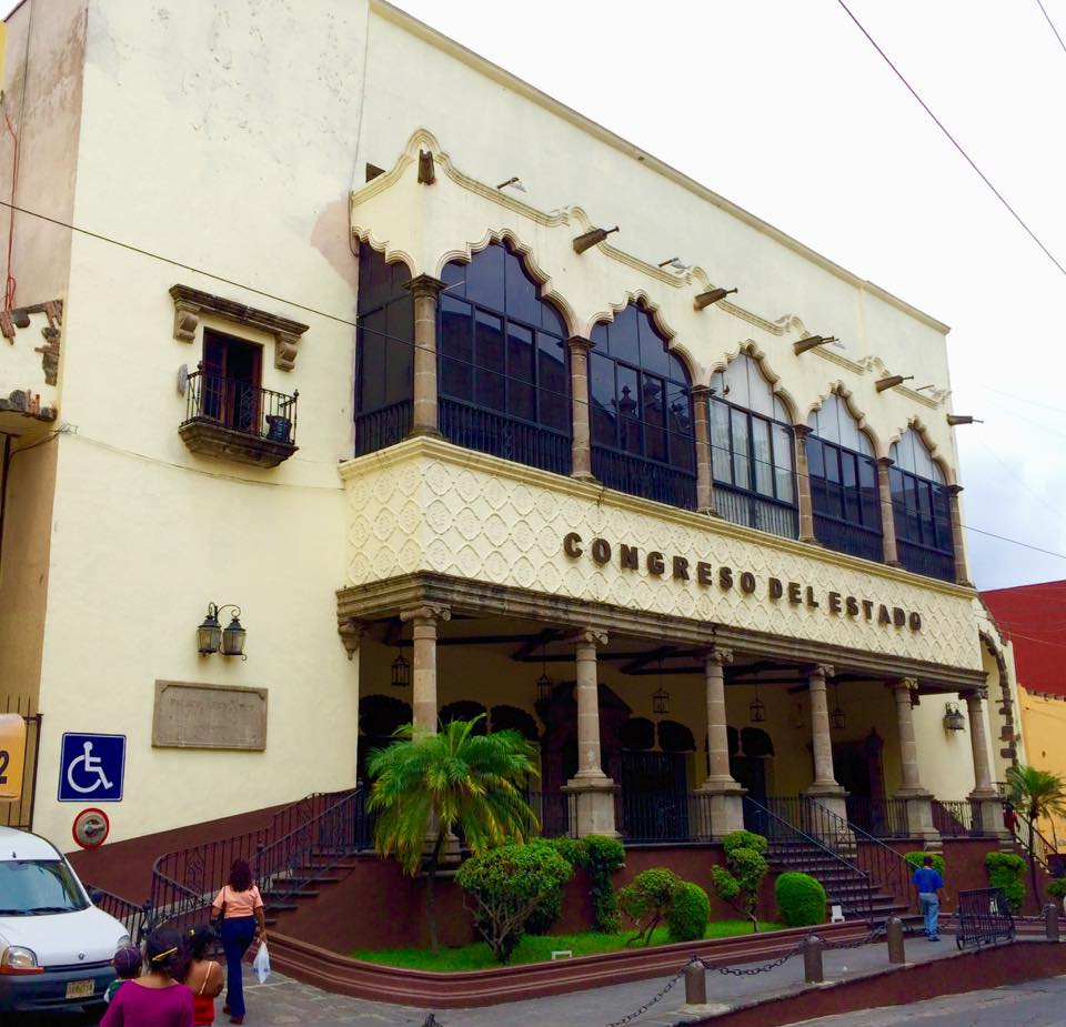 Congreso del Estado de Morelos en Cuernavaca, Morelos, Mexico. Congressional Building in Cuernavaca, Morelos, Mexico.